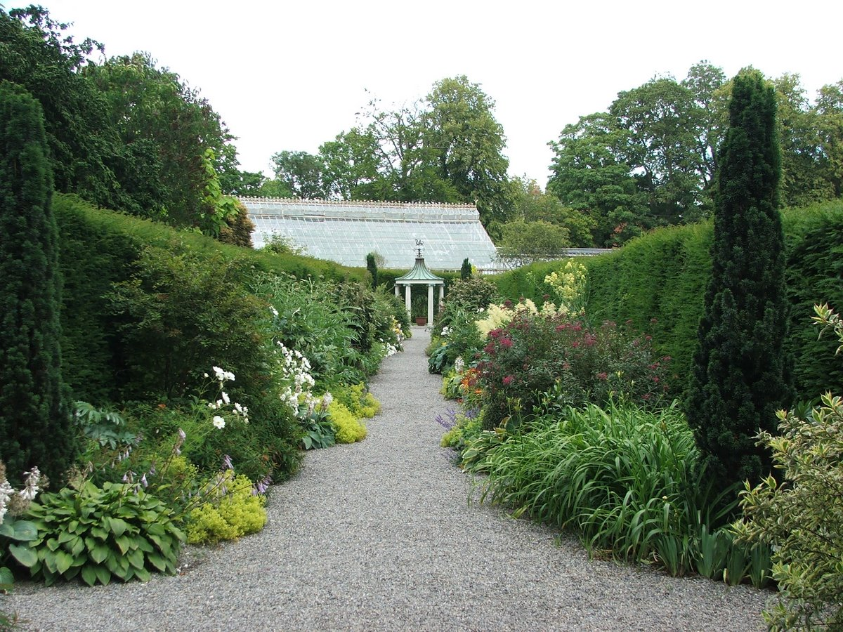 Walled garden, Farmleigh (Dublin)